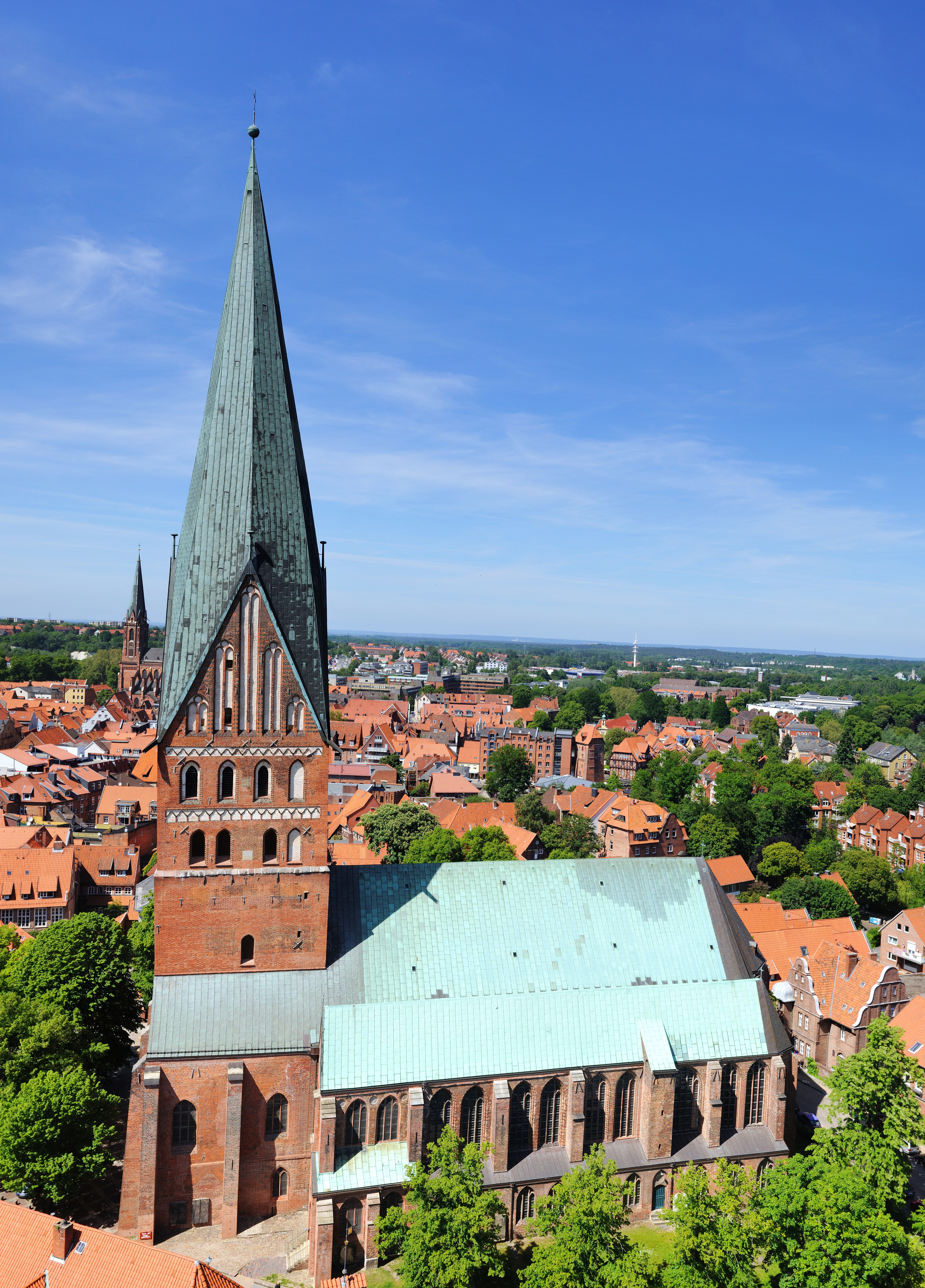 Lüneburg: Saint Johannis Church as seen from water tower.